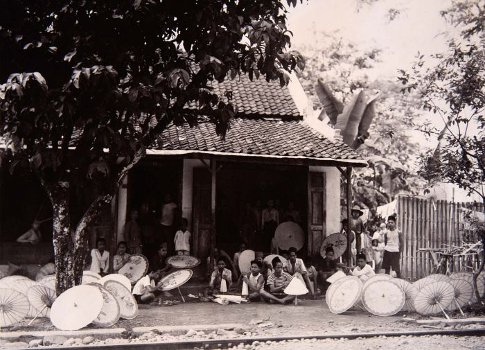 The making of parasols